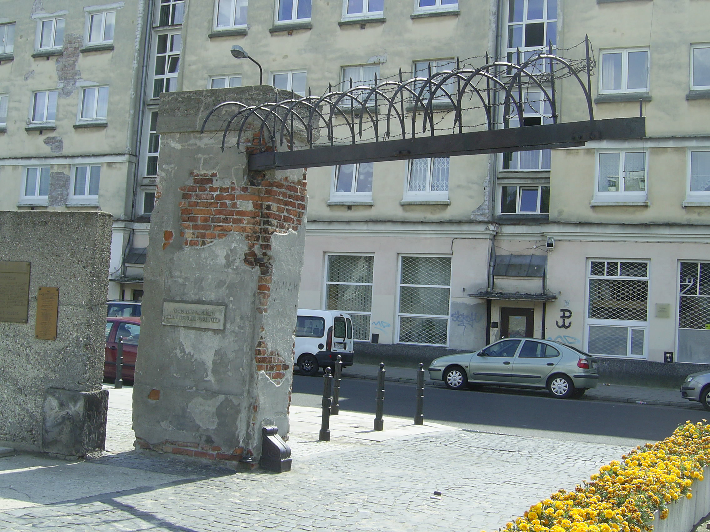 Pawiak